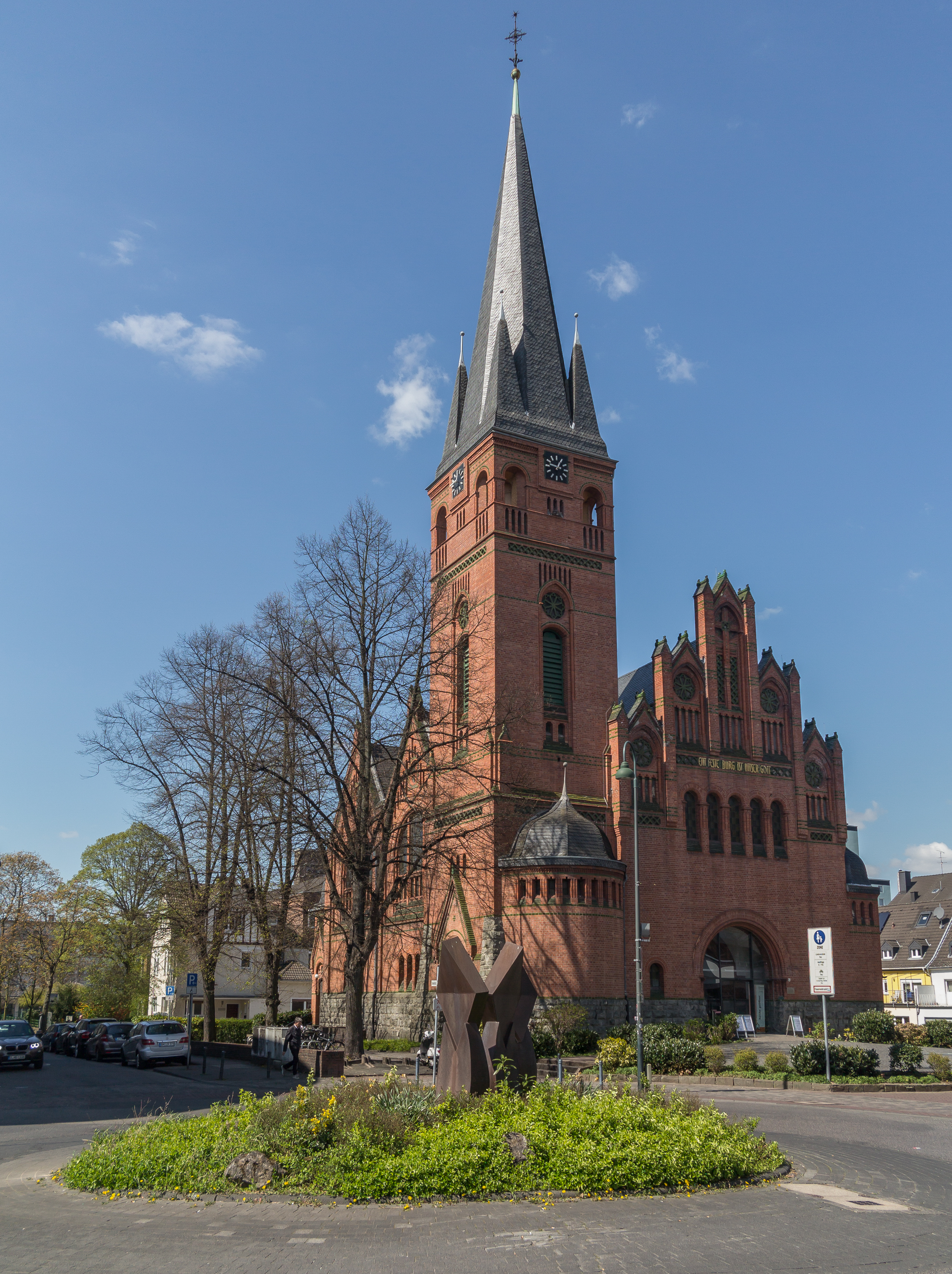 Wiesdorf, church: Christuskirche This is a photograph of an architectural monument., no. 168